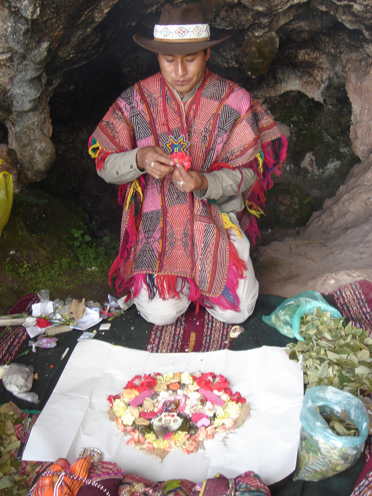 Shaman Elder, Freddy Puma Quispe creates a prayer bundle known as a despacho. This was in Chinchero near Cusco and the Sacred Valley in Peru. This despacho was to create abundance and harmony.